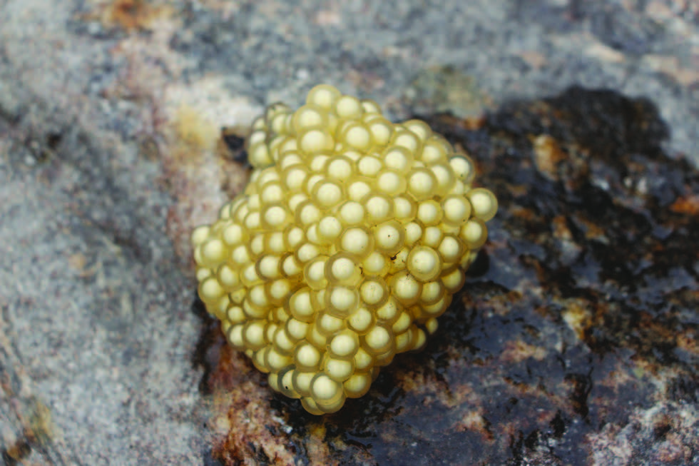 Nanorana liebigii eggmass from Manaslu Conservation Area, Nepal